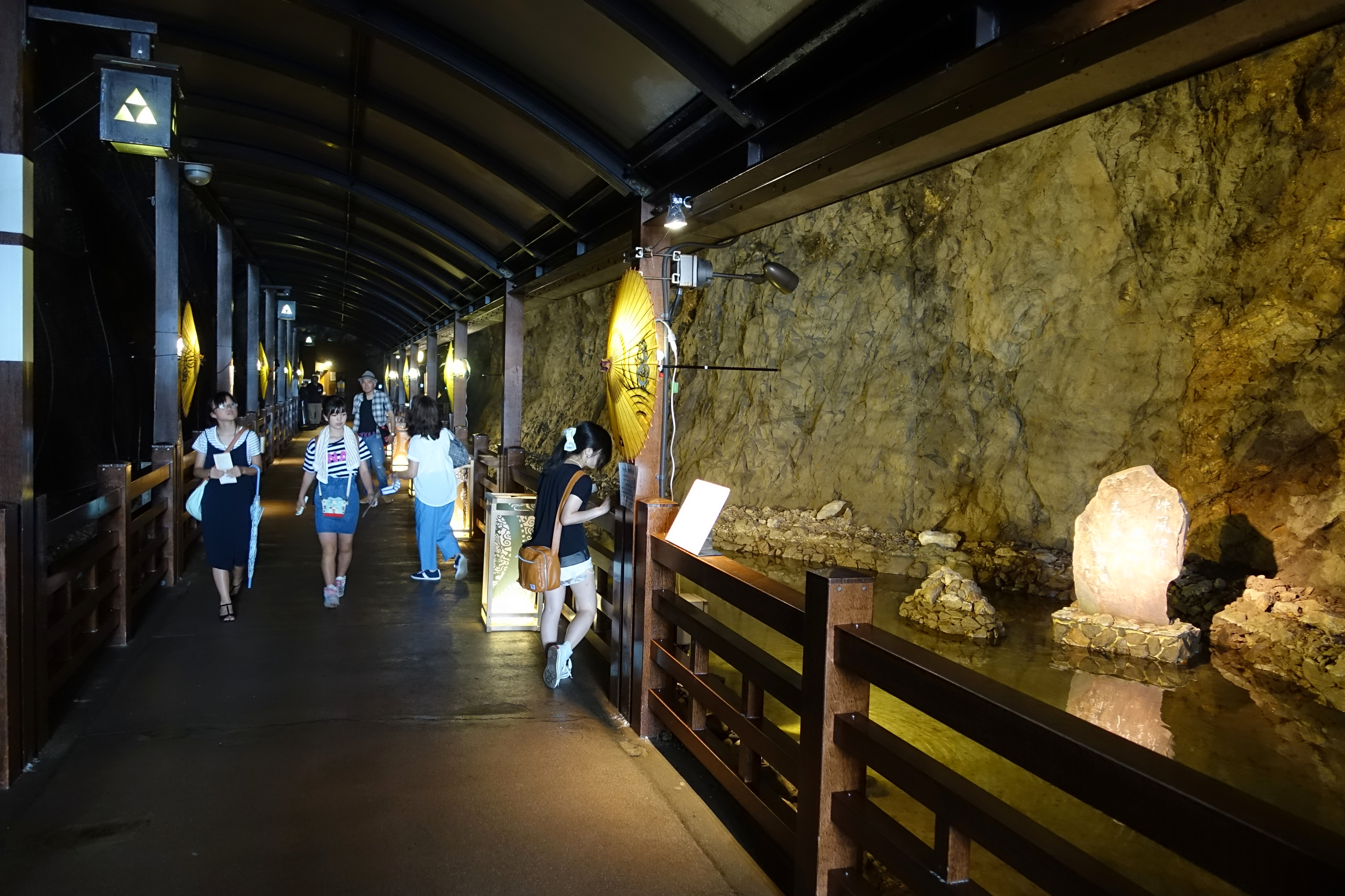 Iwaya Caves - Enoshima, Japan.